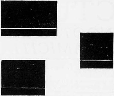 Principle of painting.